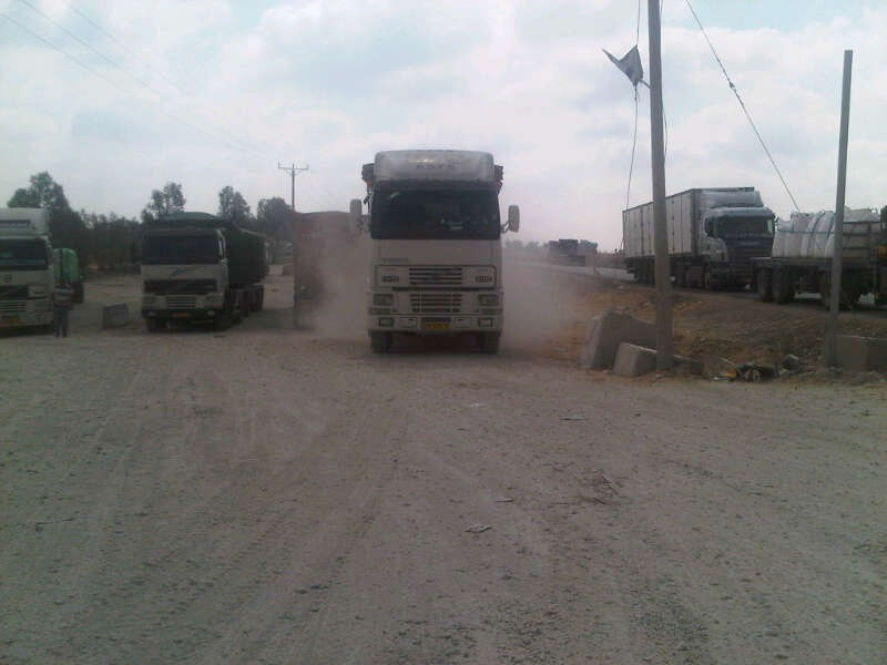 August 21, 2011 Israel transfers hundreds of truckloads of goods through the Kerem Shalom land crossing.